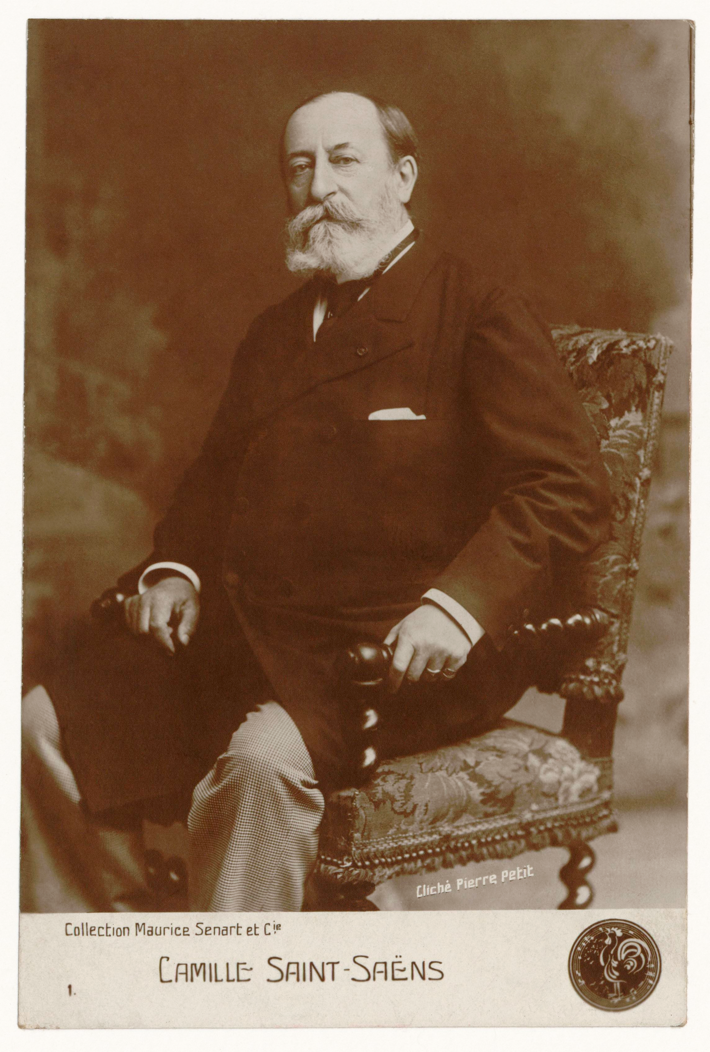 Camille Saint-Saëns photographed by Pierre Petit in 1900.